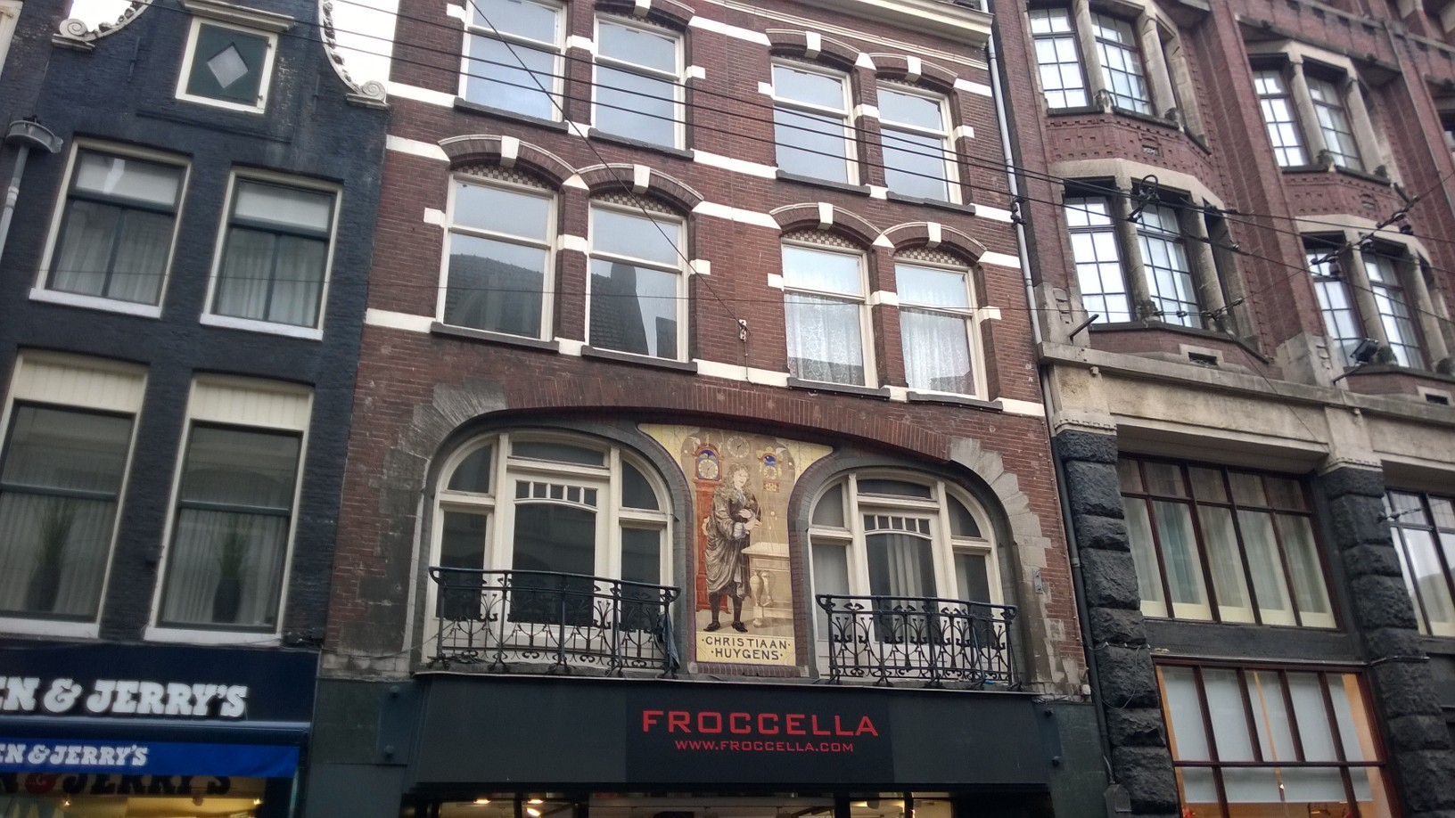 Leidsestraat 86 with gable decoration in tiles depicting Christiaan Huygens